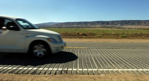 Carretera musical